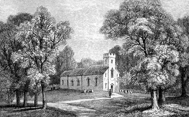 Engraving of Steventon rectory, home of the Austen family during much of Jane Austen's lifetime